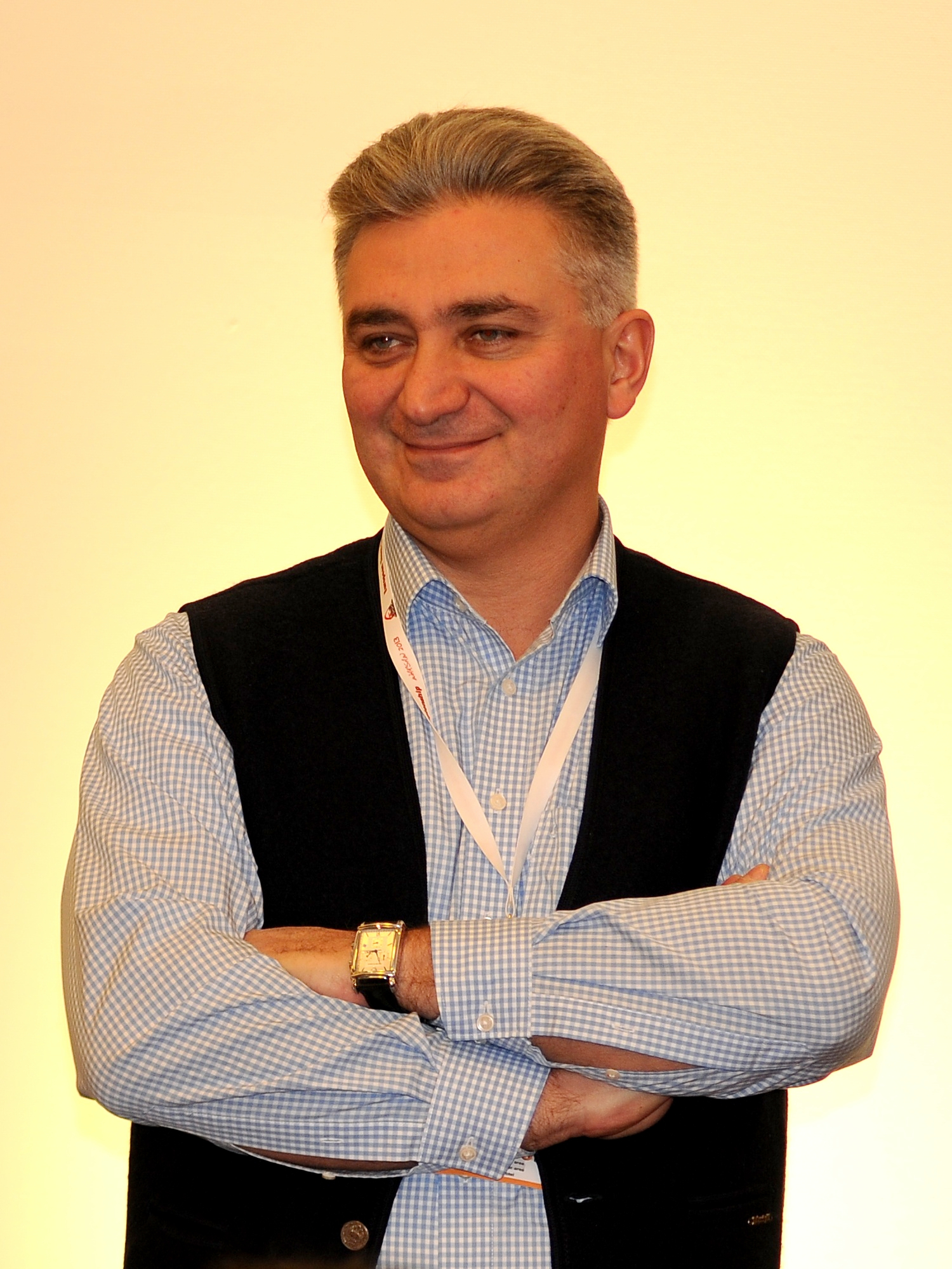 GM Giorgi Giorgadze, European Chess Team Championship Warsaw 2013